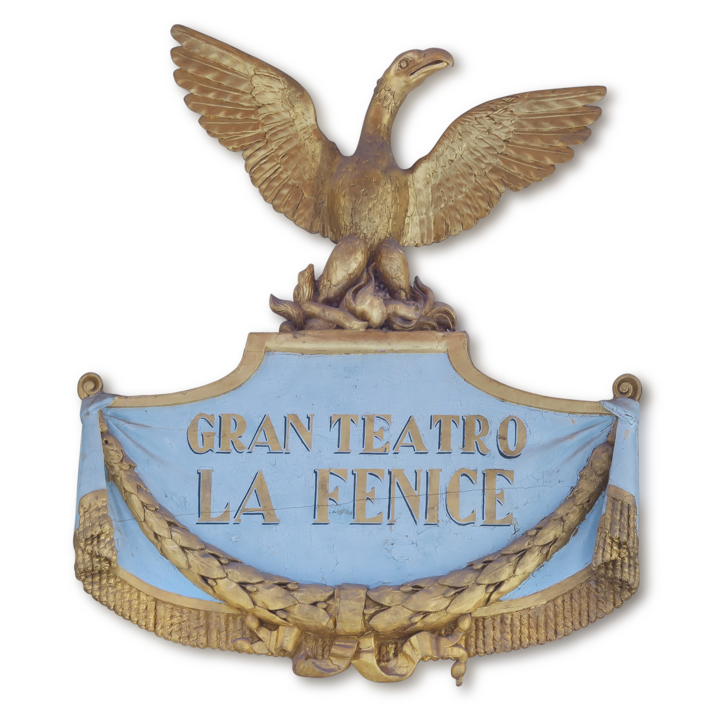 Venice – Sign of the Fenice’s Theatre.